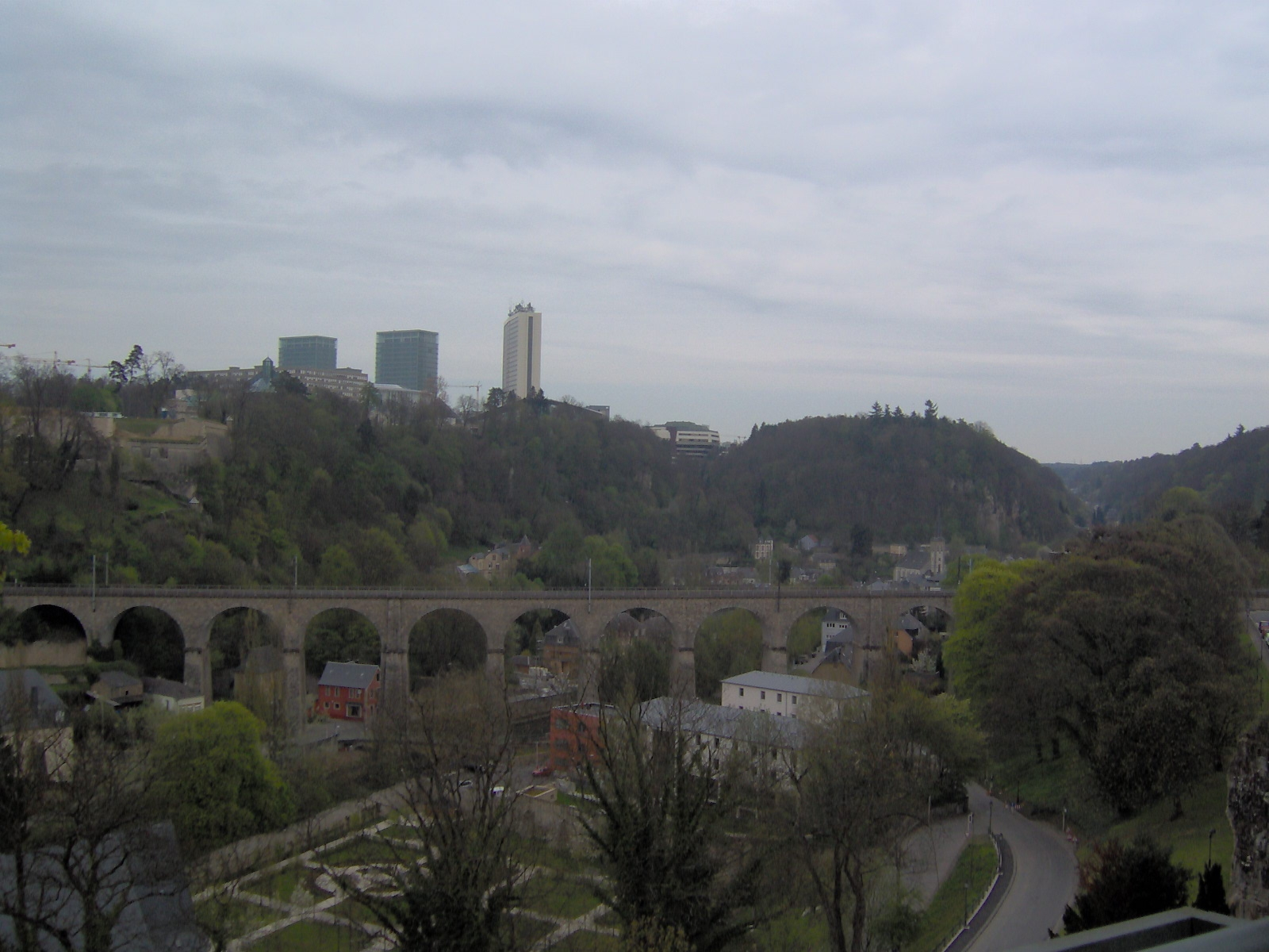 Viaduct at Luxemburg on the Railway to Wasserbillig